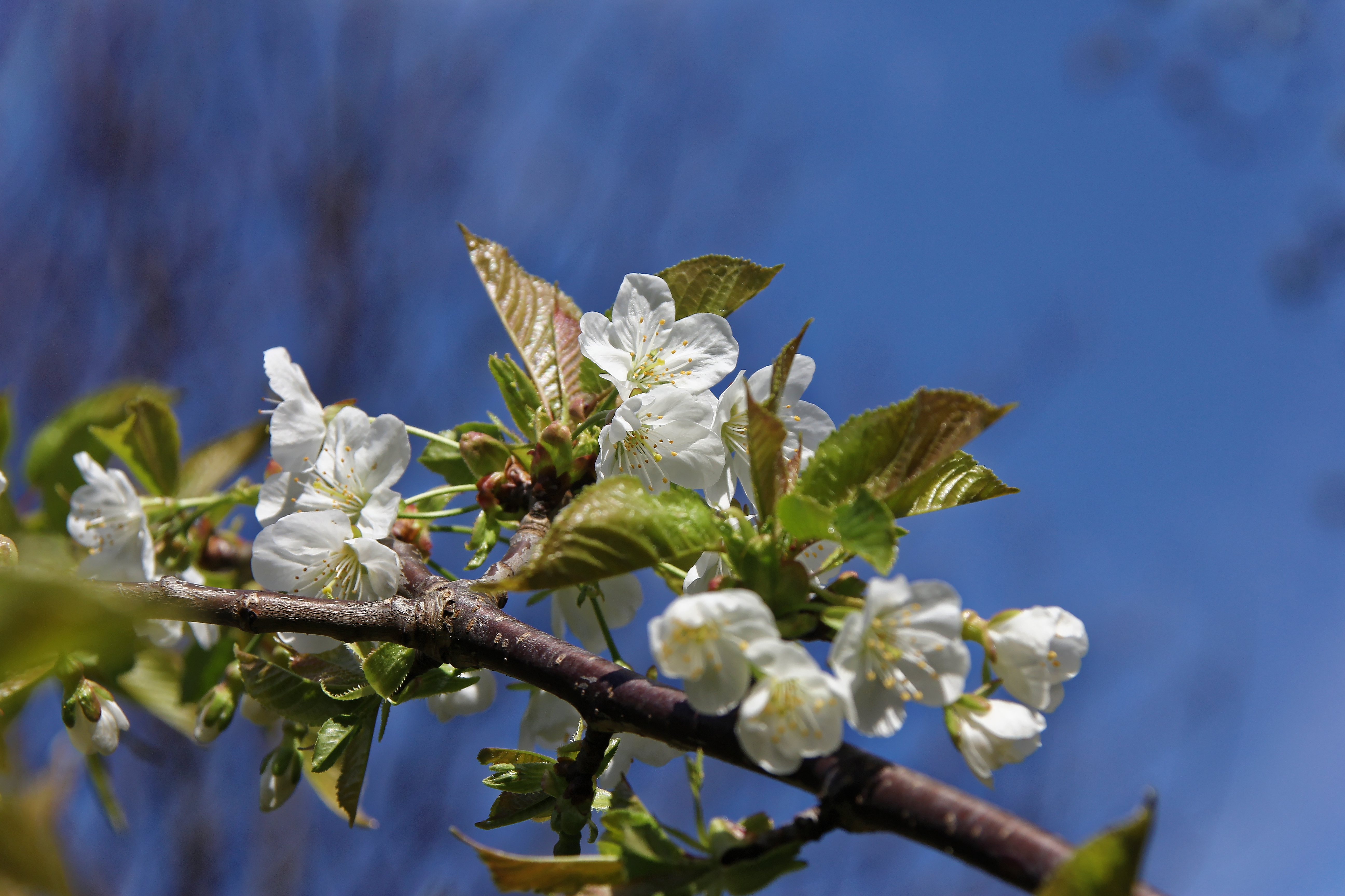 Hamburg-Eppendorf, Garden de l'Aigle, blossoms of a cherry-tree (Prunus cerasus)